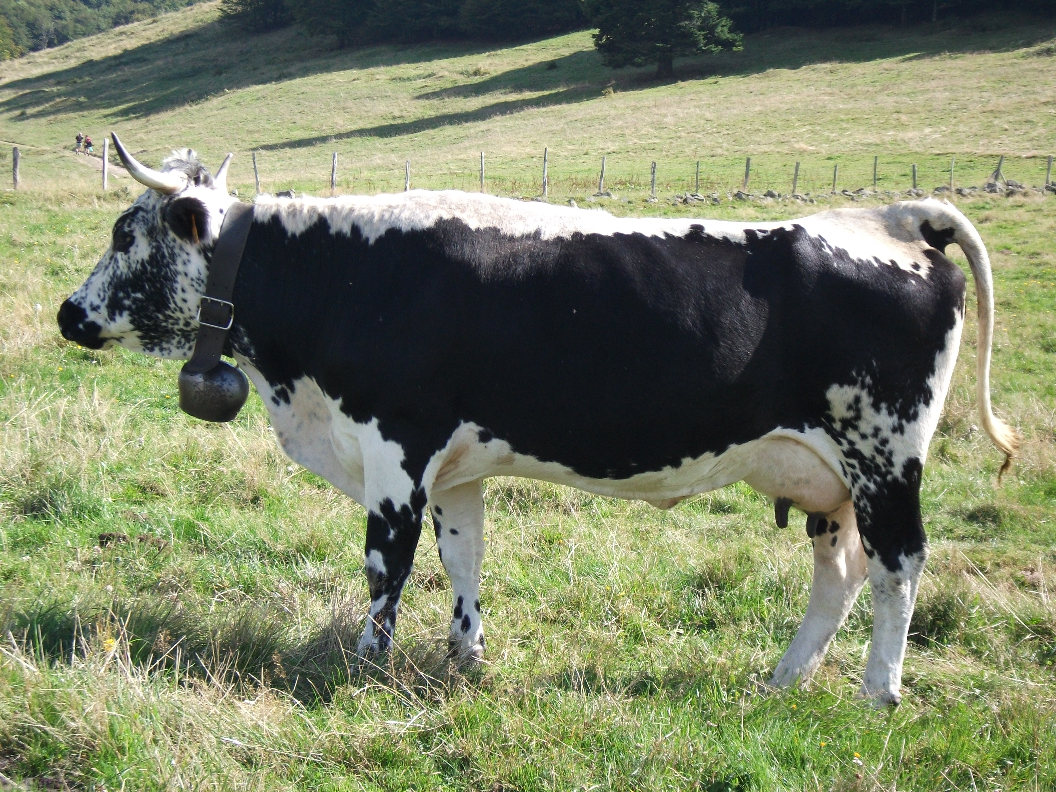 Vosgienne cattle, Fennematt, Haut-Rhin, France